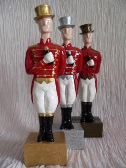 Les loyals remis aux artistes vainqueurs